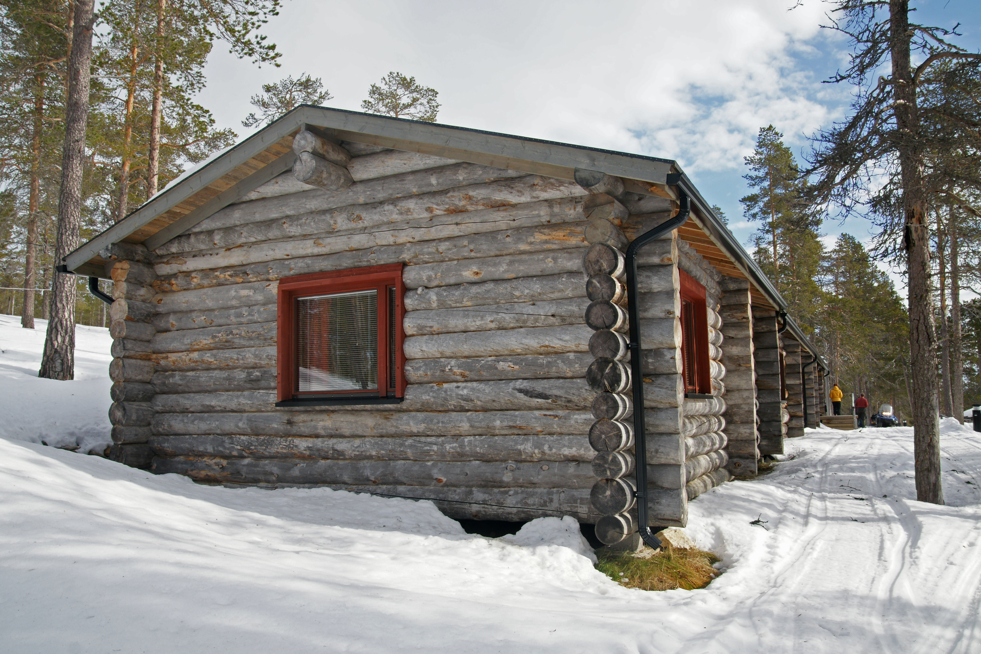 Värriö research station of the University of Helsinki in Salla municipality, Finland, situated in Värriö Natural Park.